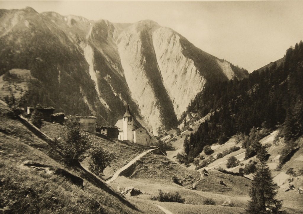 Binn village in Valais, Switzerland